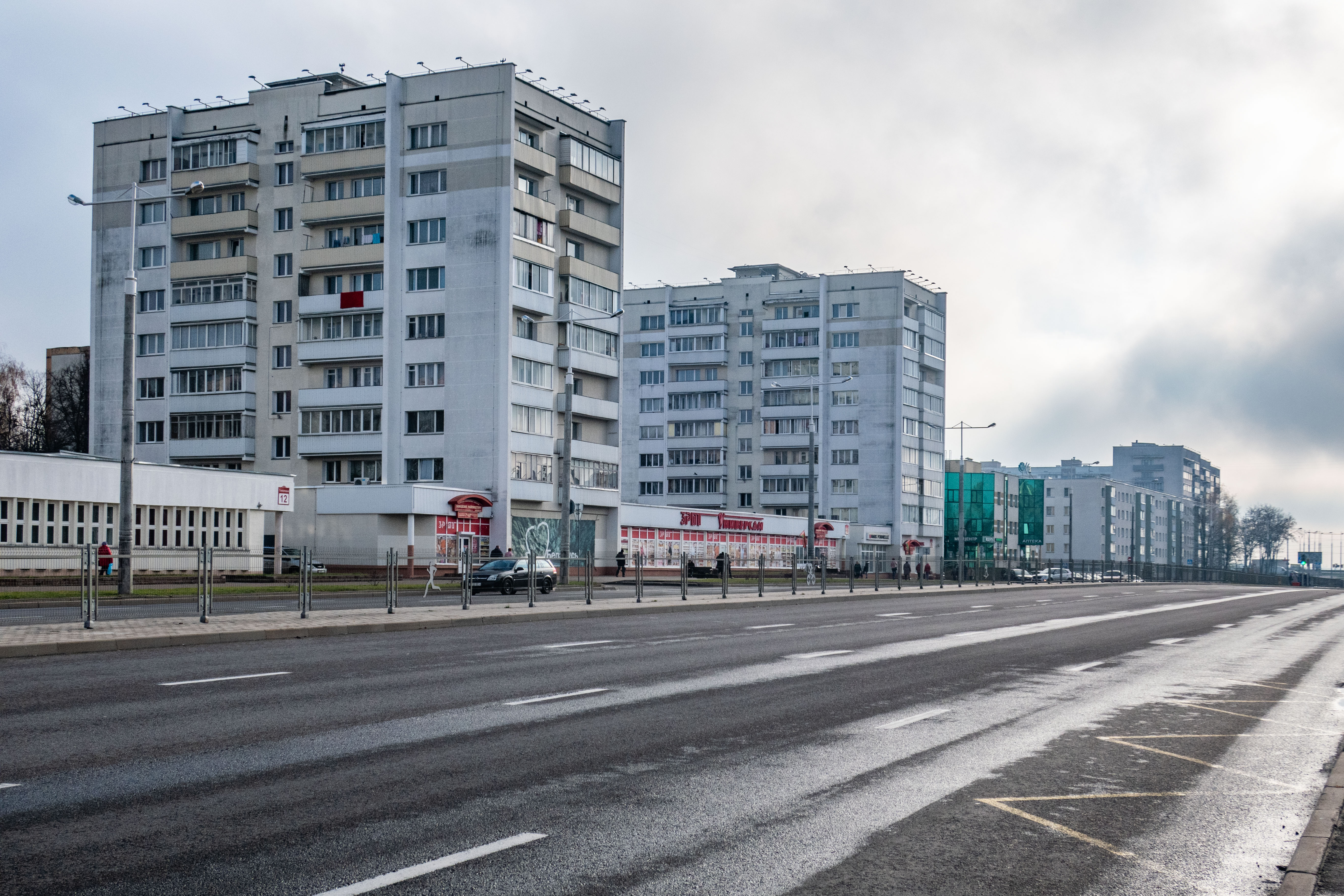 Taškienckaja street. Minsk, Belarus